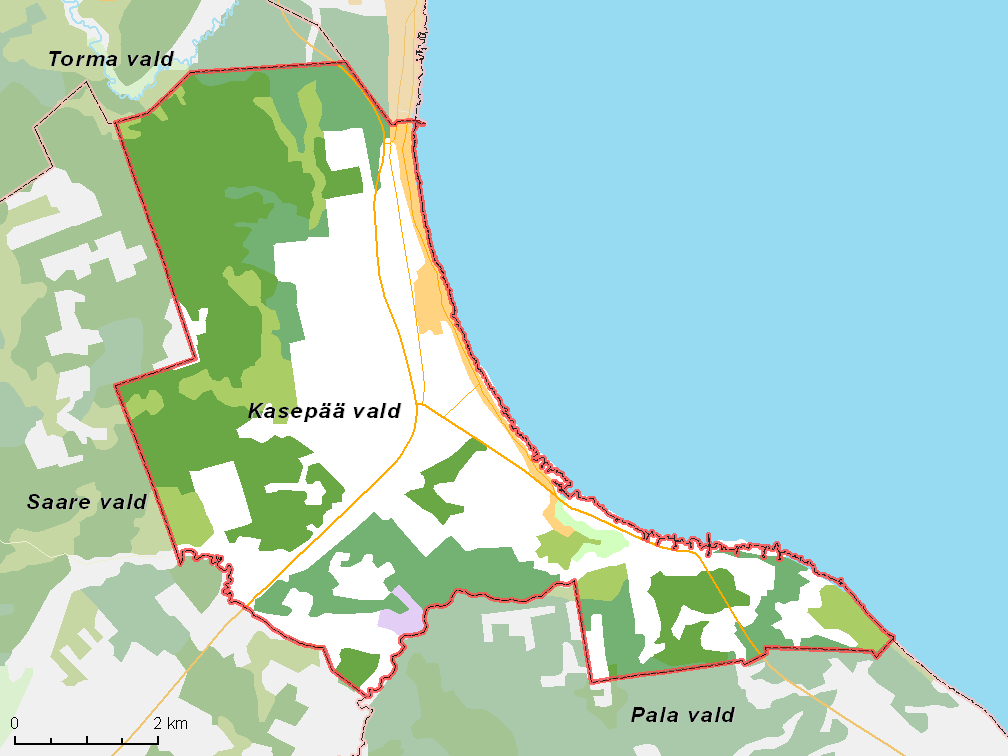 Map of municipality in Estonia